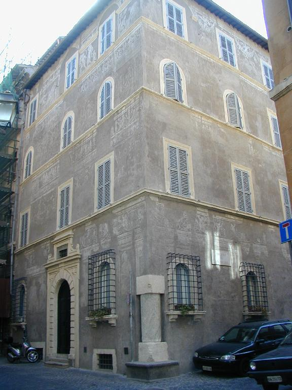 Rome, historic Milesi palace in Golden Mask road